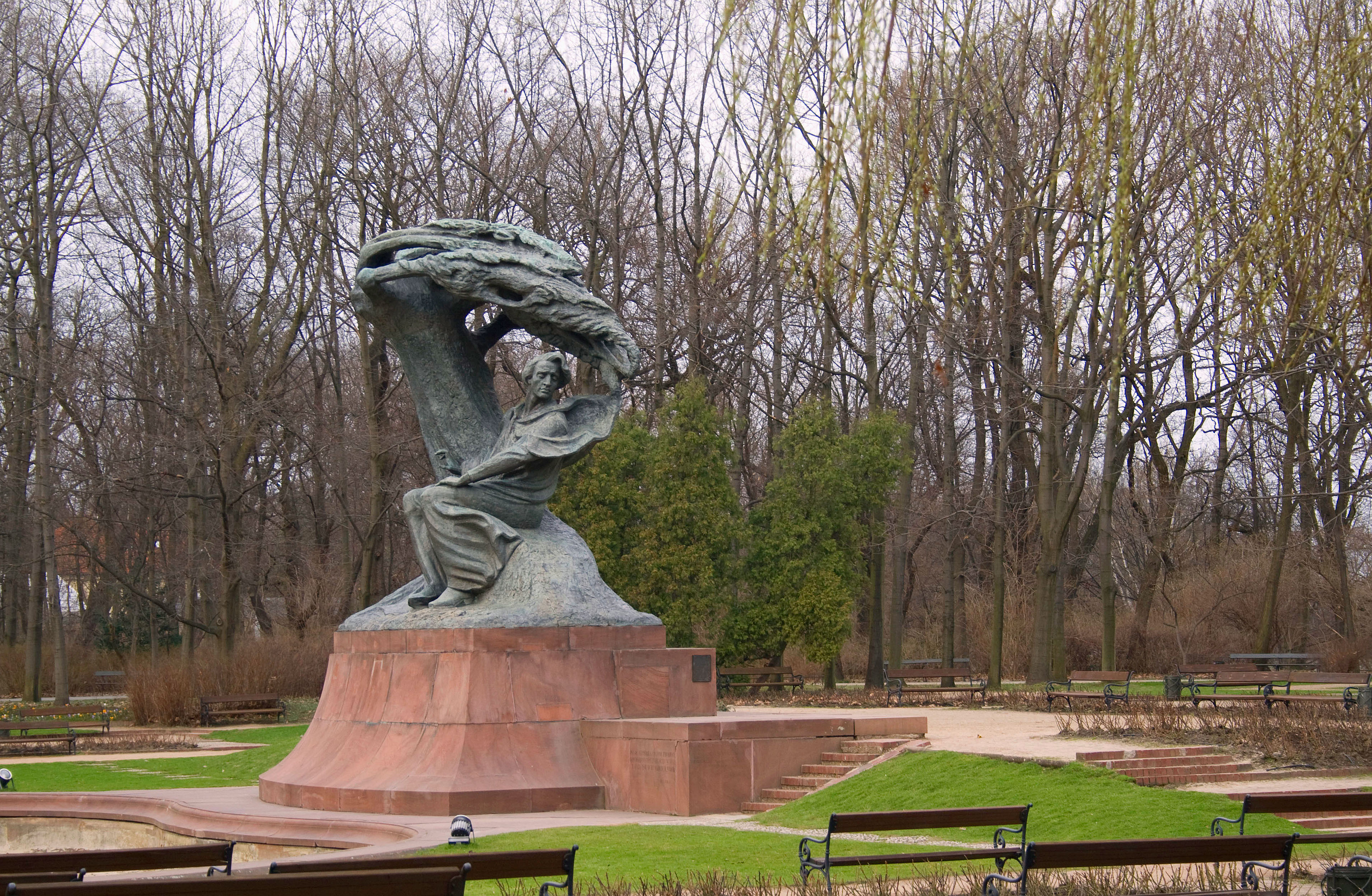 Fryderyk Chopin Monument in Warsaw, Poland